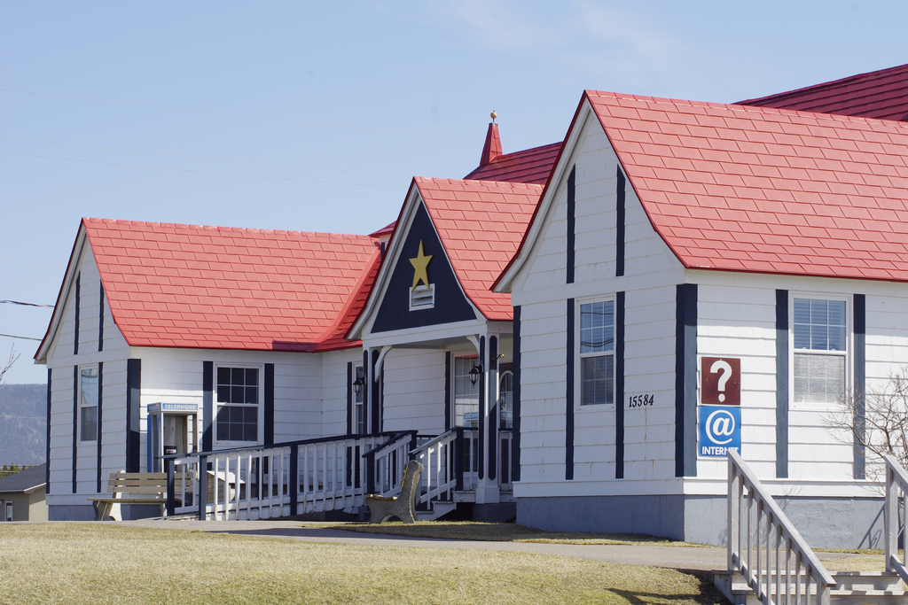 Les Trois Pignons in Chéticamp.